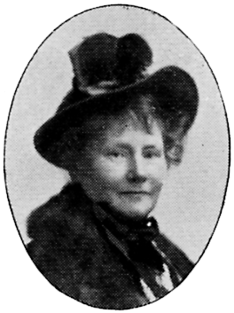 Image scanned from the book "Svenskt Porträttgalleri XX - Arkitekter, Bildhuggare, Målare m.fl. " ("Swedish Portrait Gallery XX - Architects, Sculptors, Painters, ") published 1901